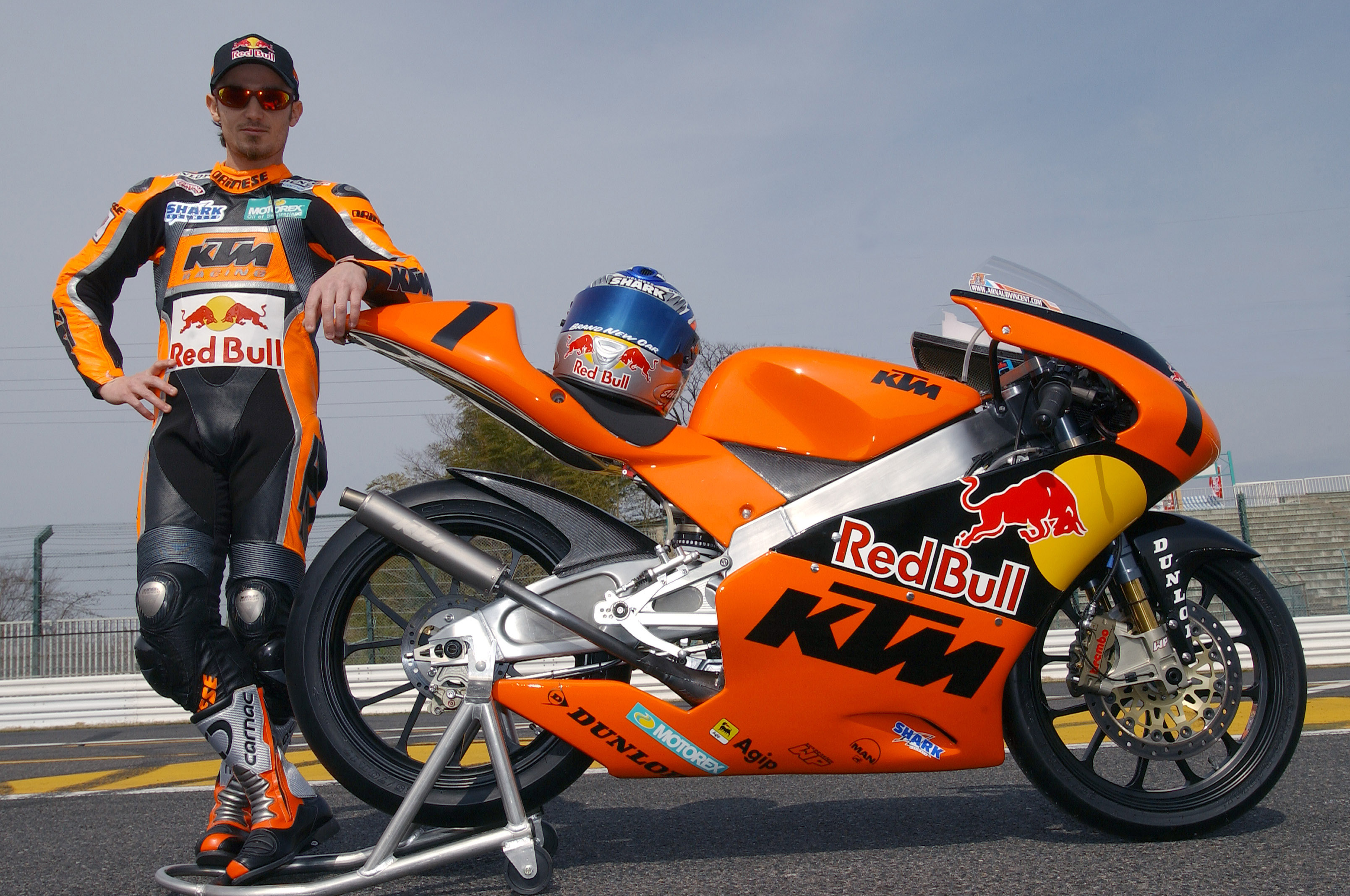 ARNAUD VINCENT125ccKTM RED BULLKTM©PSP: STAN PERECGP JAPON 2003CUIRCUIT SUZUKA